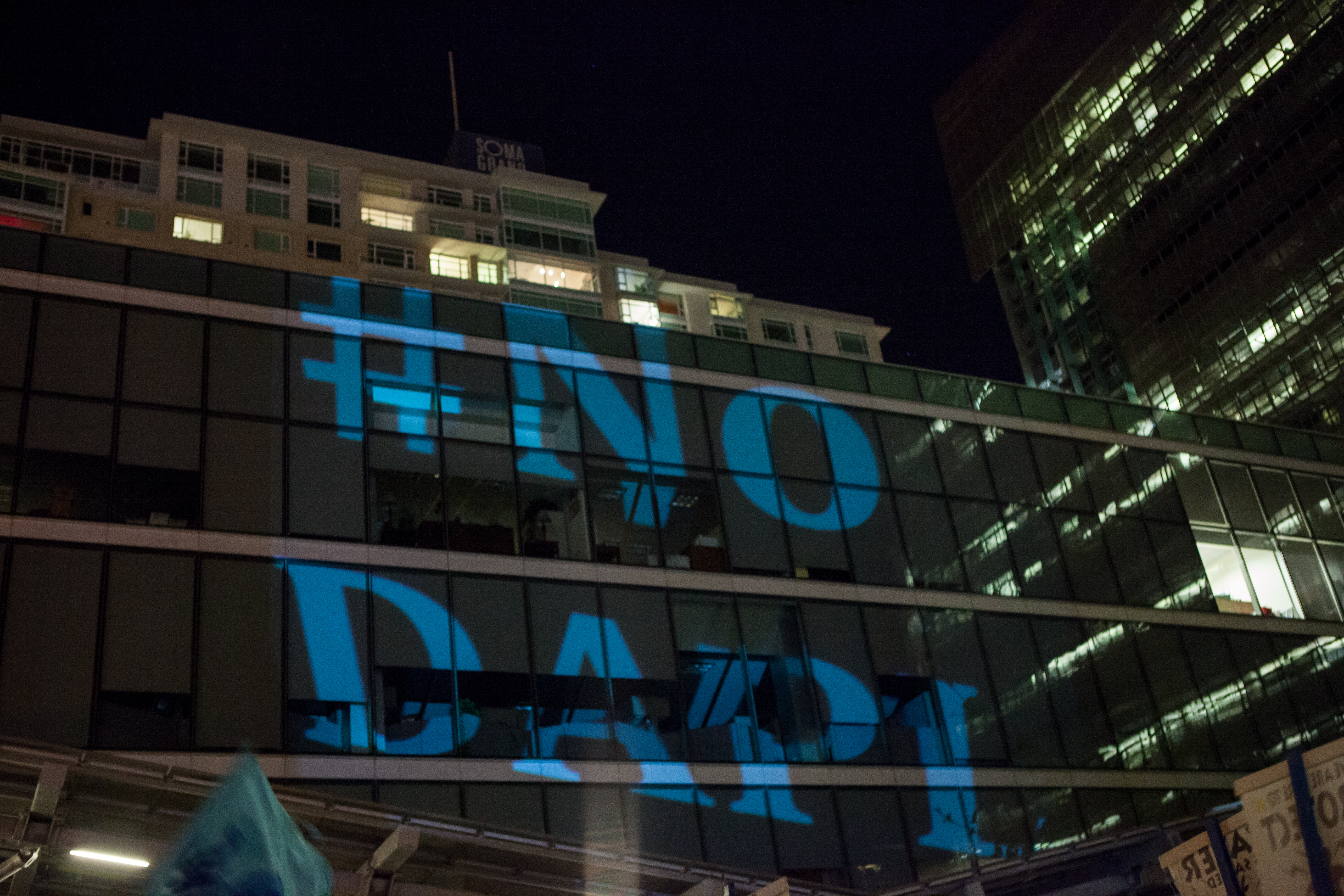 The hashtag "#NoDAPL" is projected onto a building during a San Francisco protest against the Dakota Access Pipeline and Keystone XL Pipeline.